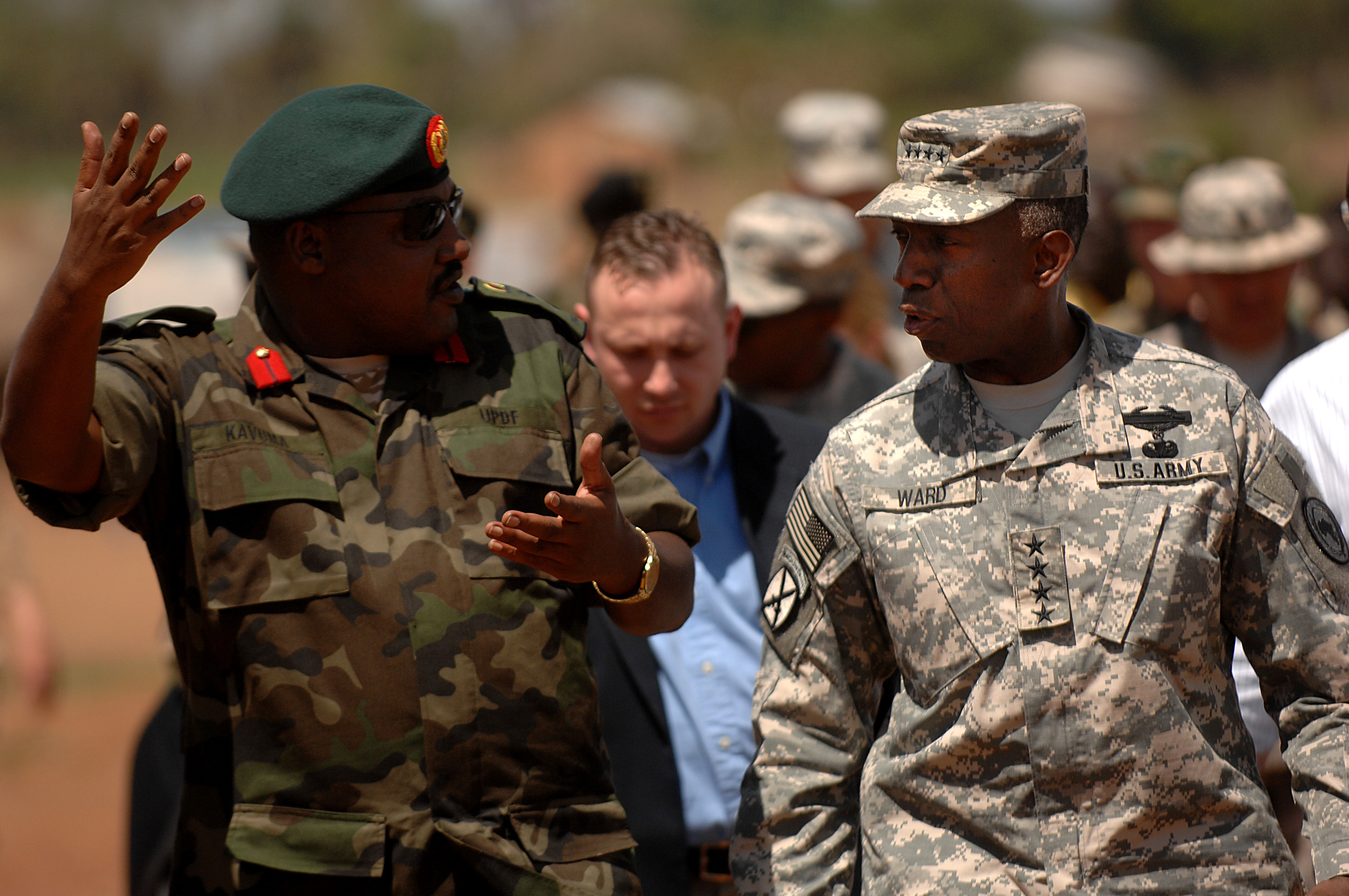 In this file photo, Gen. William E. Ward, commander of U.S. Africa Command, talks with Ugandan People's Defense Force Col. Sam Kavuma while touring the Gulu district of Uganda April 10, 2008. Ward, who stood up Africa Command this time last year, said the nation's newest combatant command is making inroads with Africans and is successful because it is helping African nations do what they need to do.